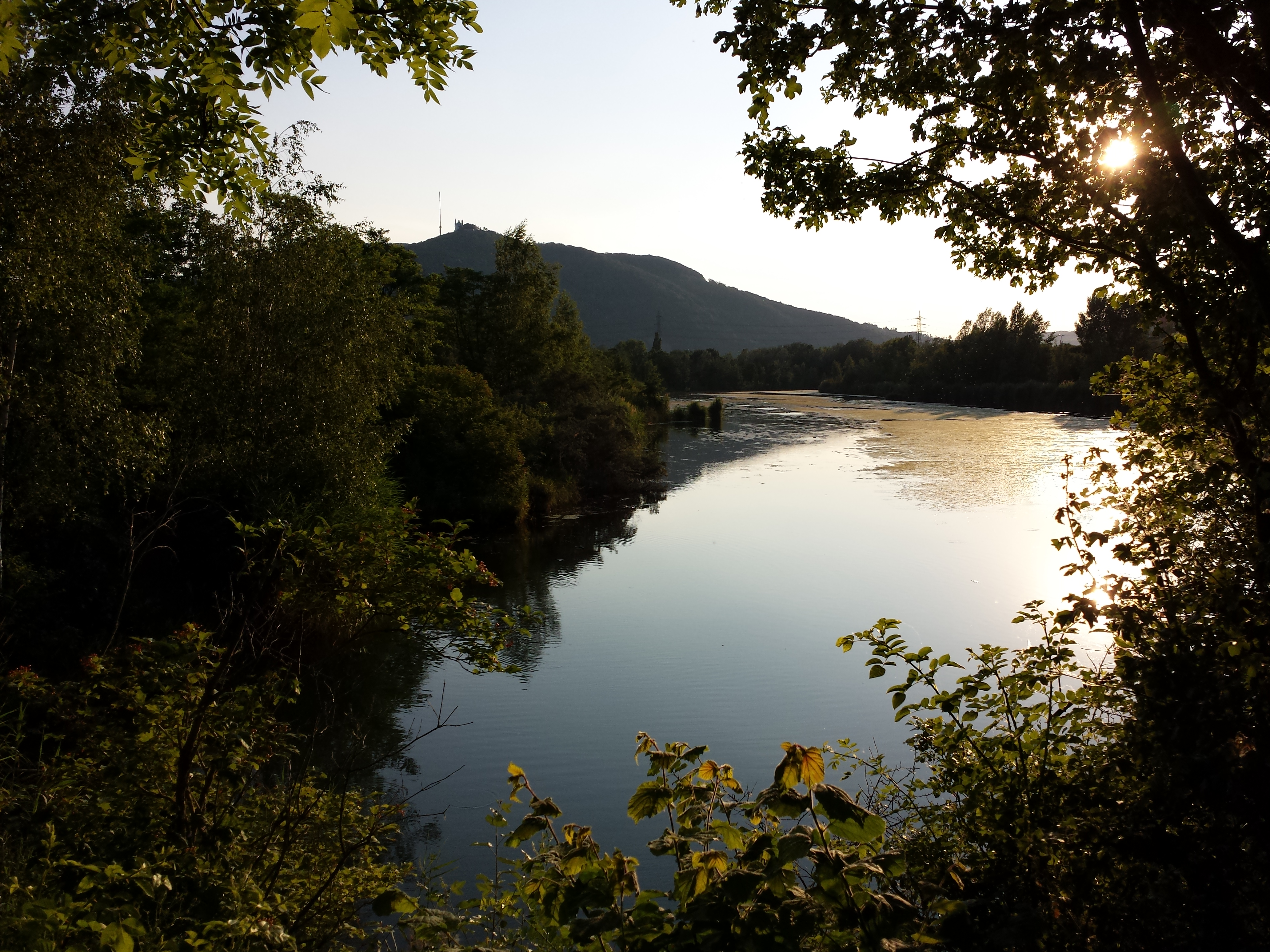 Marchfeld canal in Vienna-Foridsdorf View towards Kahlenberg